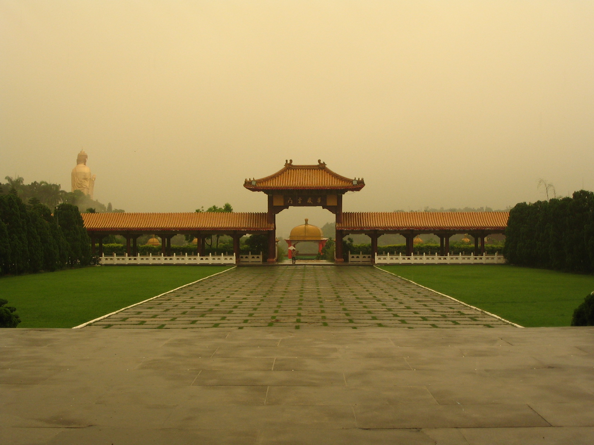 Fo Guang Shan, Taiwan: Buddha statue, gate